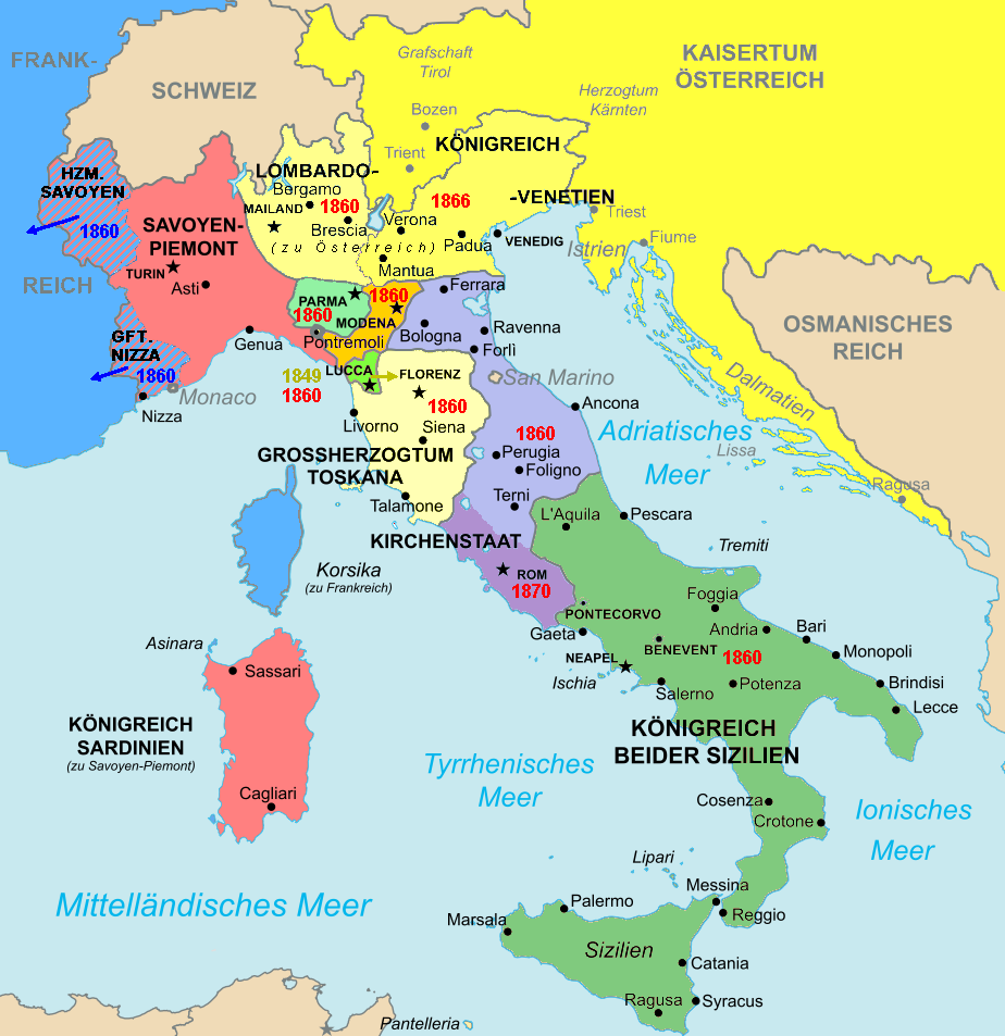 yellow & orange = Habsburg rule, green = Bourbon rule, red dates = annexion to the Kingdom of Sardinia-Piemont or the Kingdom of Italy